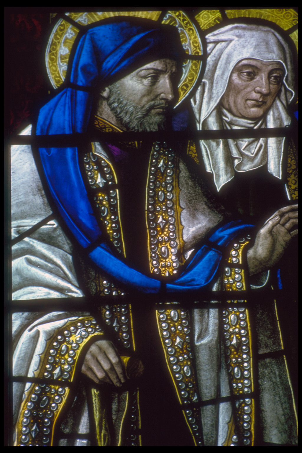 Photograph of a stained glass window in Rochester Cathedral, Kent, England. Picture shot on Fuji Velvia film using a Minolta SLR/tripod by Dlloyd.